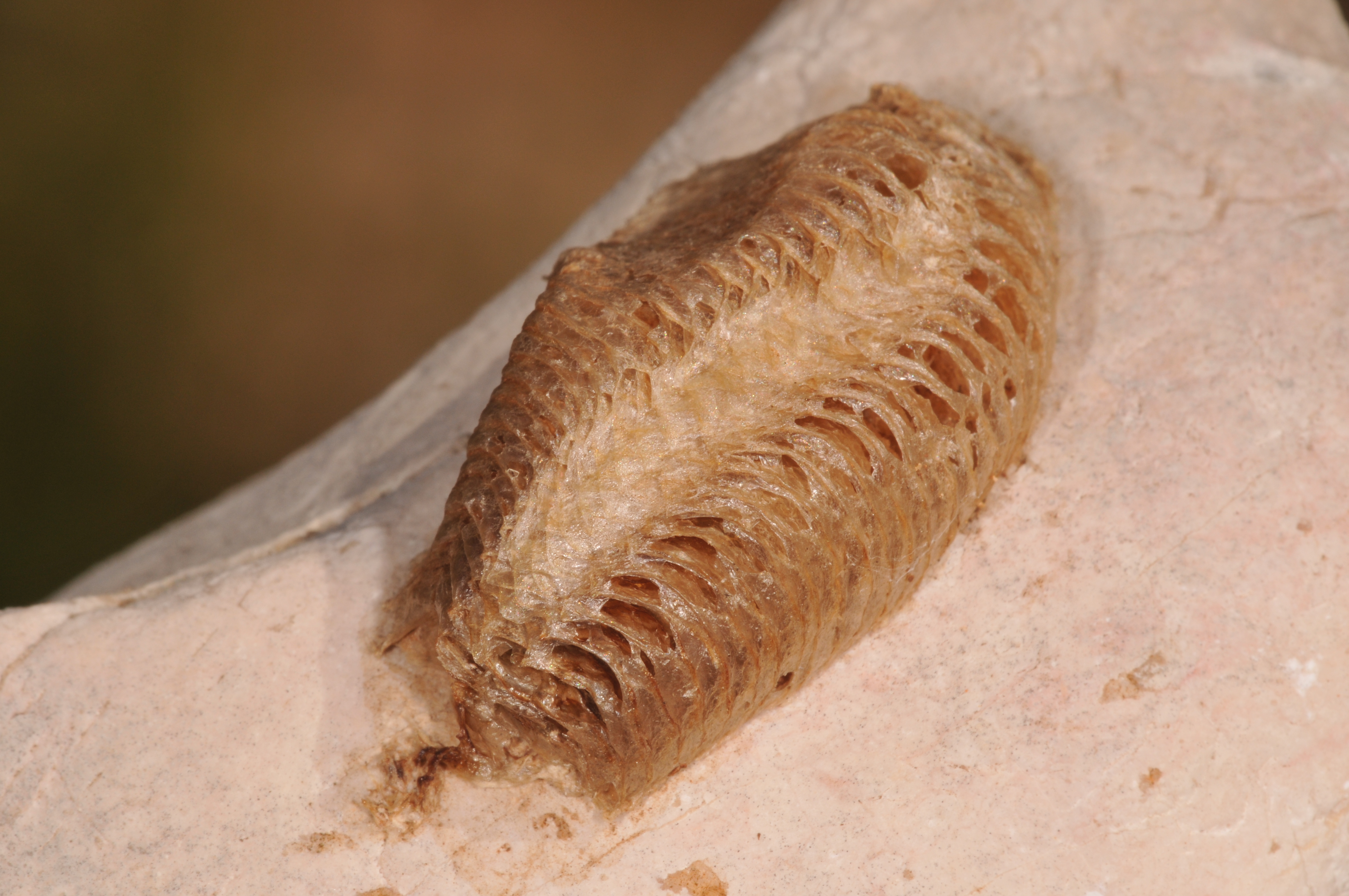 Mantidae ootheca, Croatia, Istria, Brseč 15 km south Lovran, 45°10`23,80``N 14°13`37,25``E